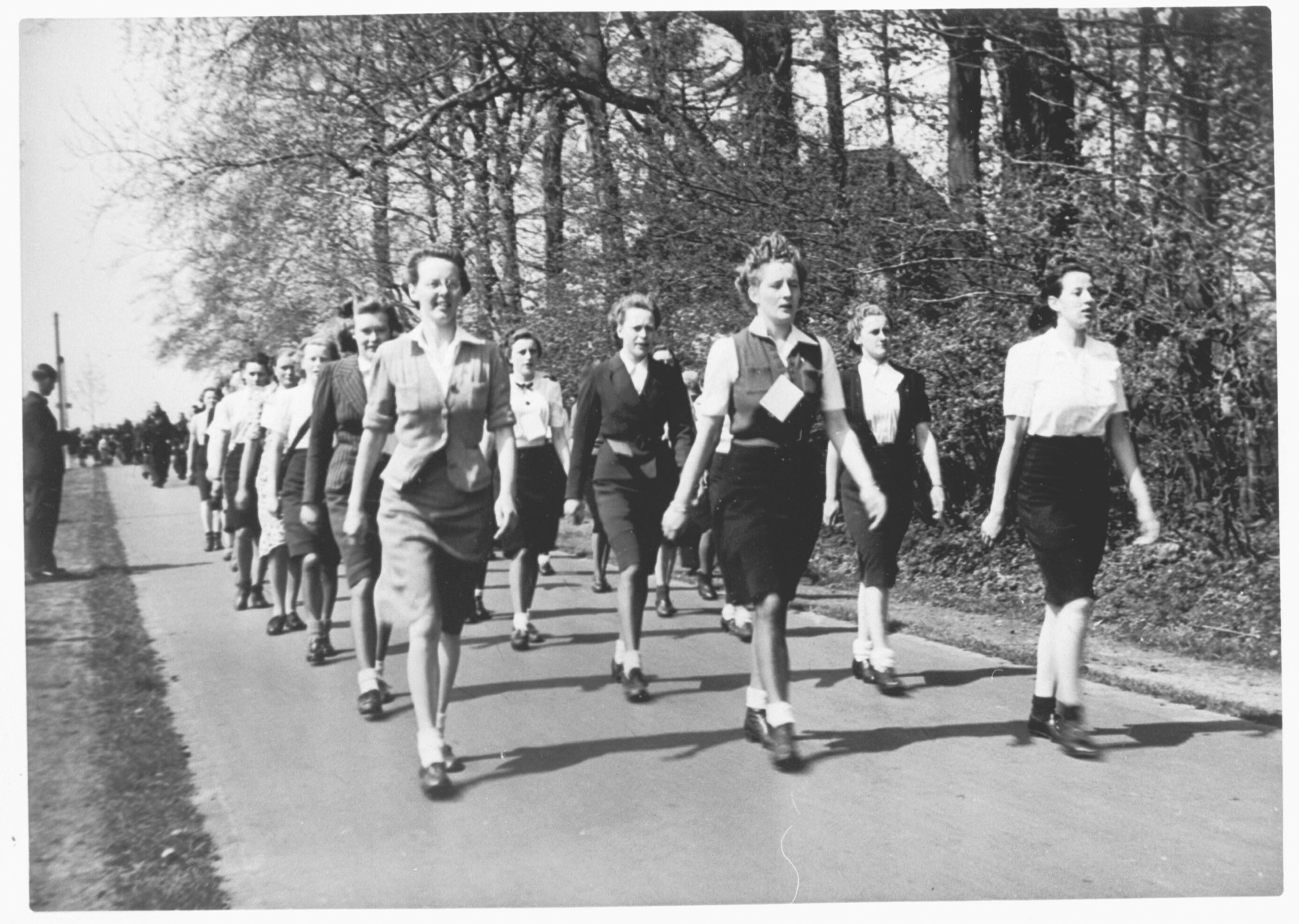 "An NSVO Group of Youth Mitglieder from the Provinz Groningen on a Wanderwettbewerbskampf." A 30-kilometer walking tour organized by the WA. This photo is from the archive of the Photo service of the NSB.